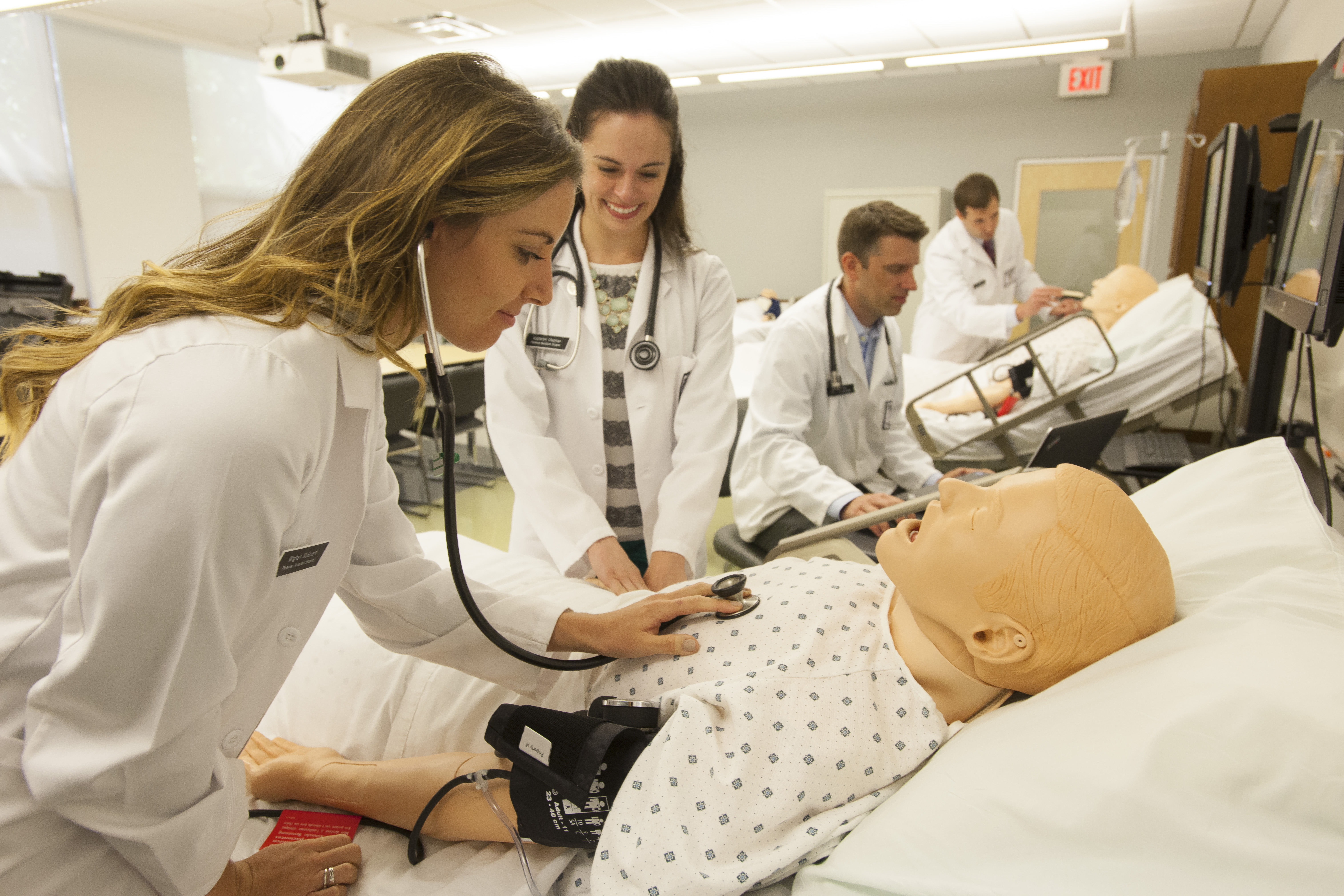 Ohio Dominican offers a master's program in the growing field of Physician Assistant Studies